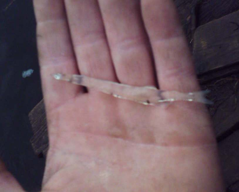 Japanese icefish (Salangichthys microdon)